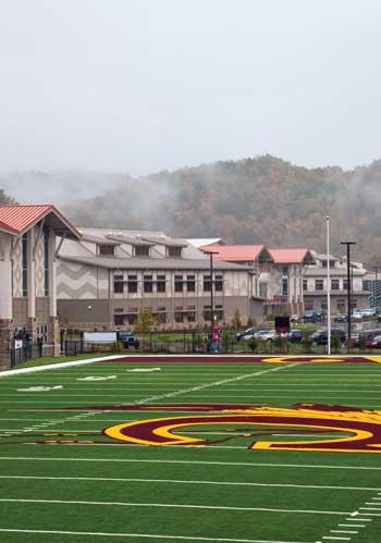 Cherokee High School from its Football Field. The new green, state-of-the-art school campus was built in 2010.